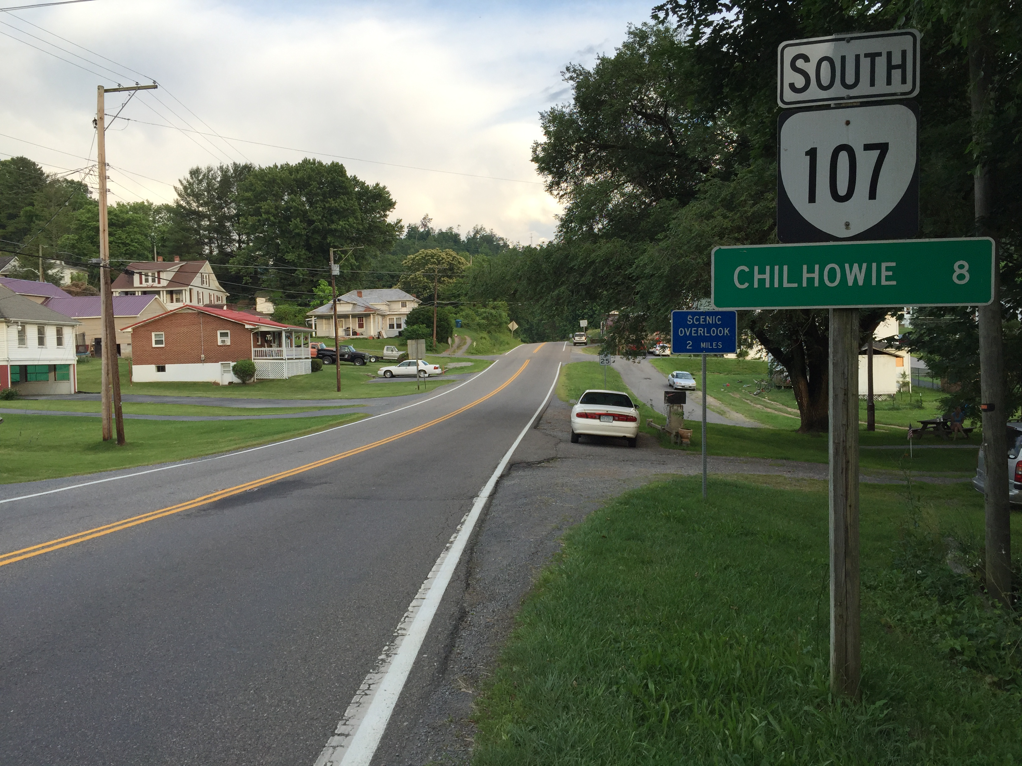 View south along Virginia State Route 107 (Worthy Boulevard) at Virginia State Route 91 (Main Street) in Saltville, Smyth County, Virginia